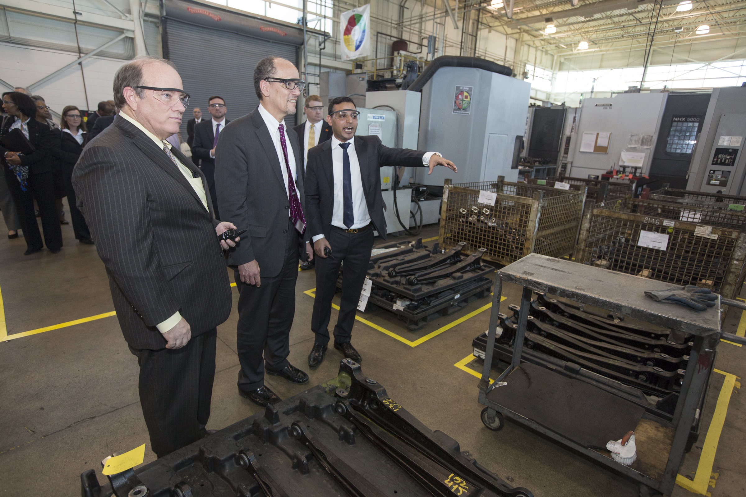 Secretary of Labor Thomas E. Perez, center, and Mayor of Detroit Mike Duggan, left, listen to Lalit Kumar, CEO, Sakthi Automotive Group, during a tour of the Sakthi Automotive Group Manufacturing Facility in Detroit, MI, Wednesday, April 15, 2015. (Jeffrey Sauger/For Department of Labor)